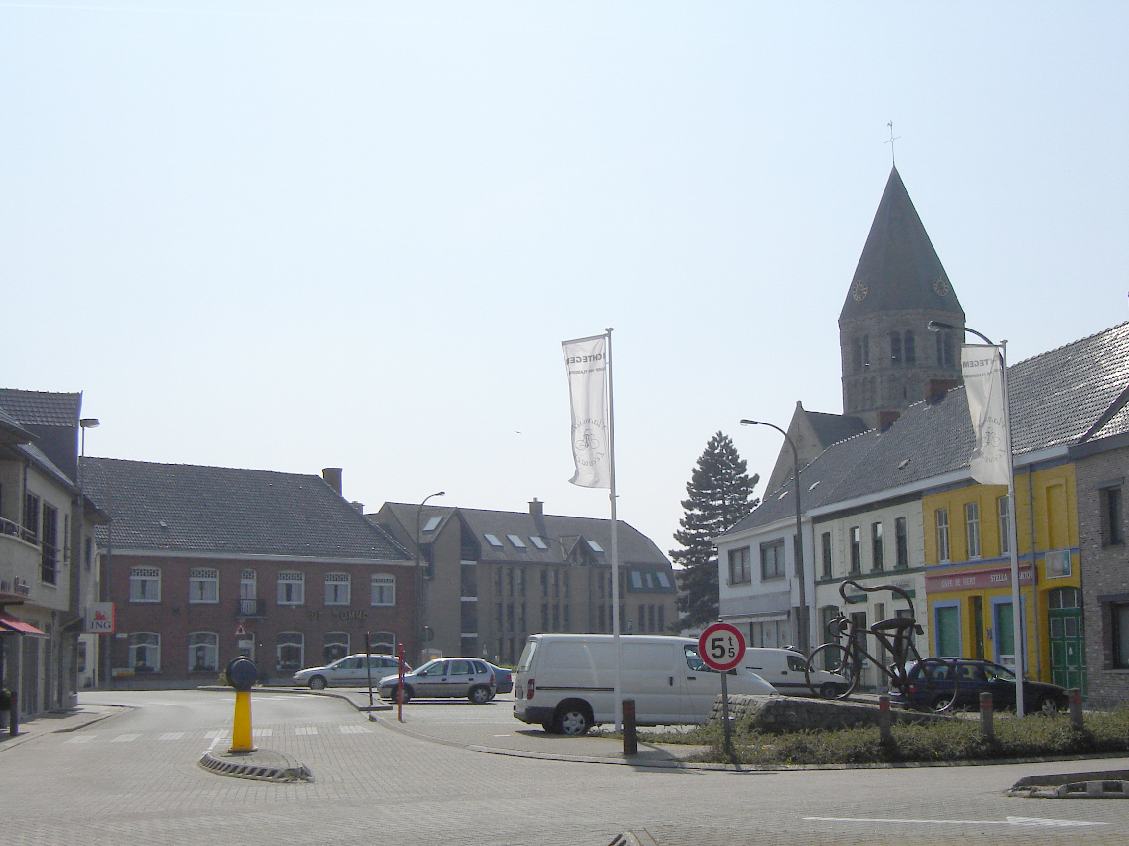 Markt (market square) and church of Saint Michael in Ichtegem. Ichtegem, West-Flanders, Belgium